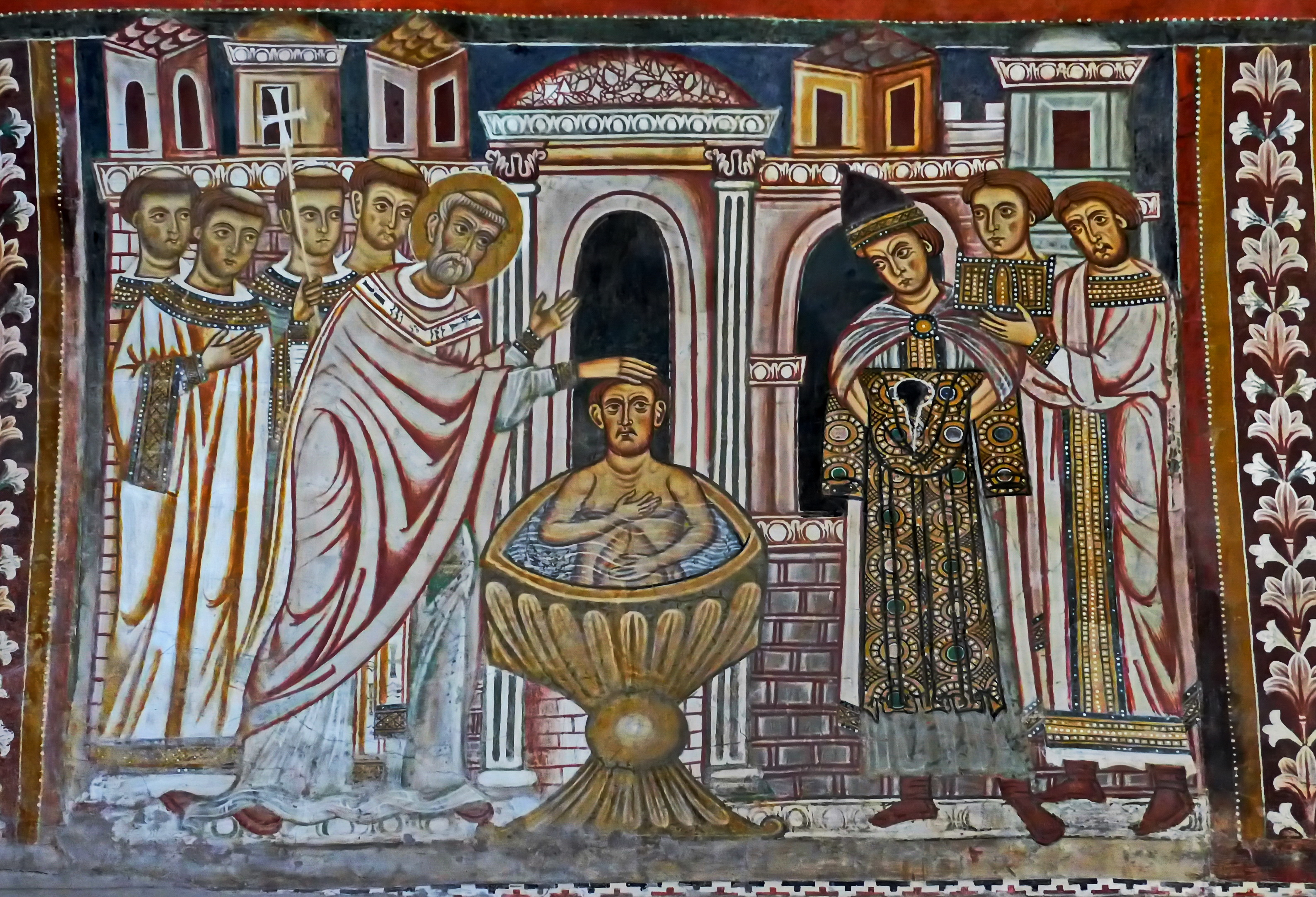 Rome, Basilika Santi Quattro Coronati, Chapel of Sylvester